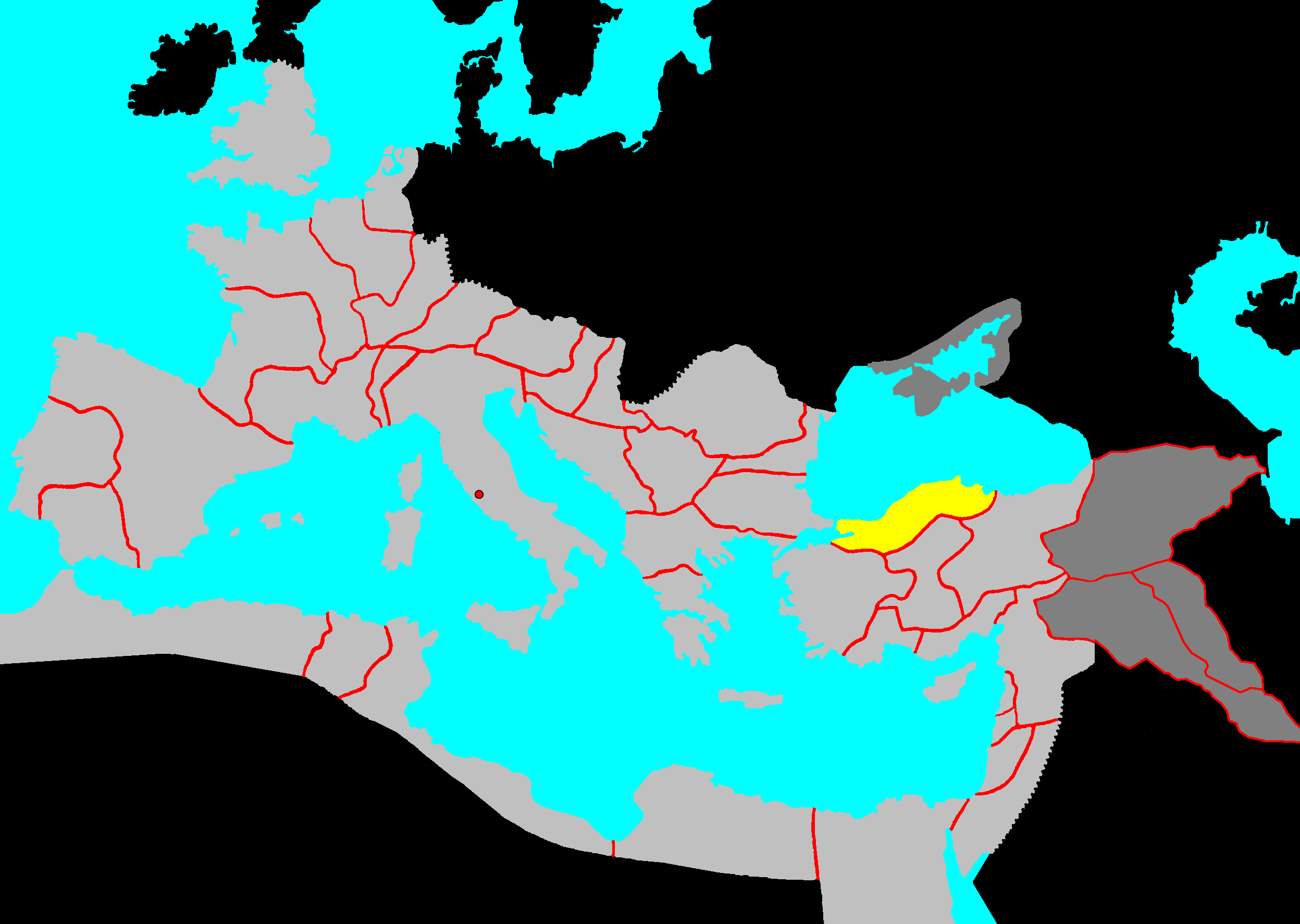 Description: provinces of the Roman Empire (Imperium Romanum) Source: own work Date: December 2005 Author: --Immanuel Giel 12:45, 13 December 2005 (UTC) Other versions: none